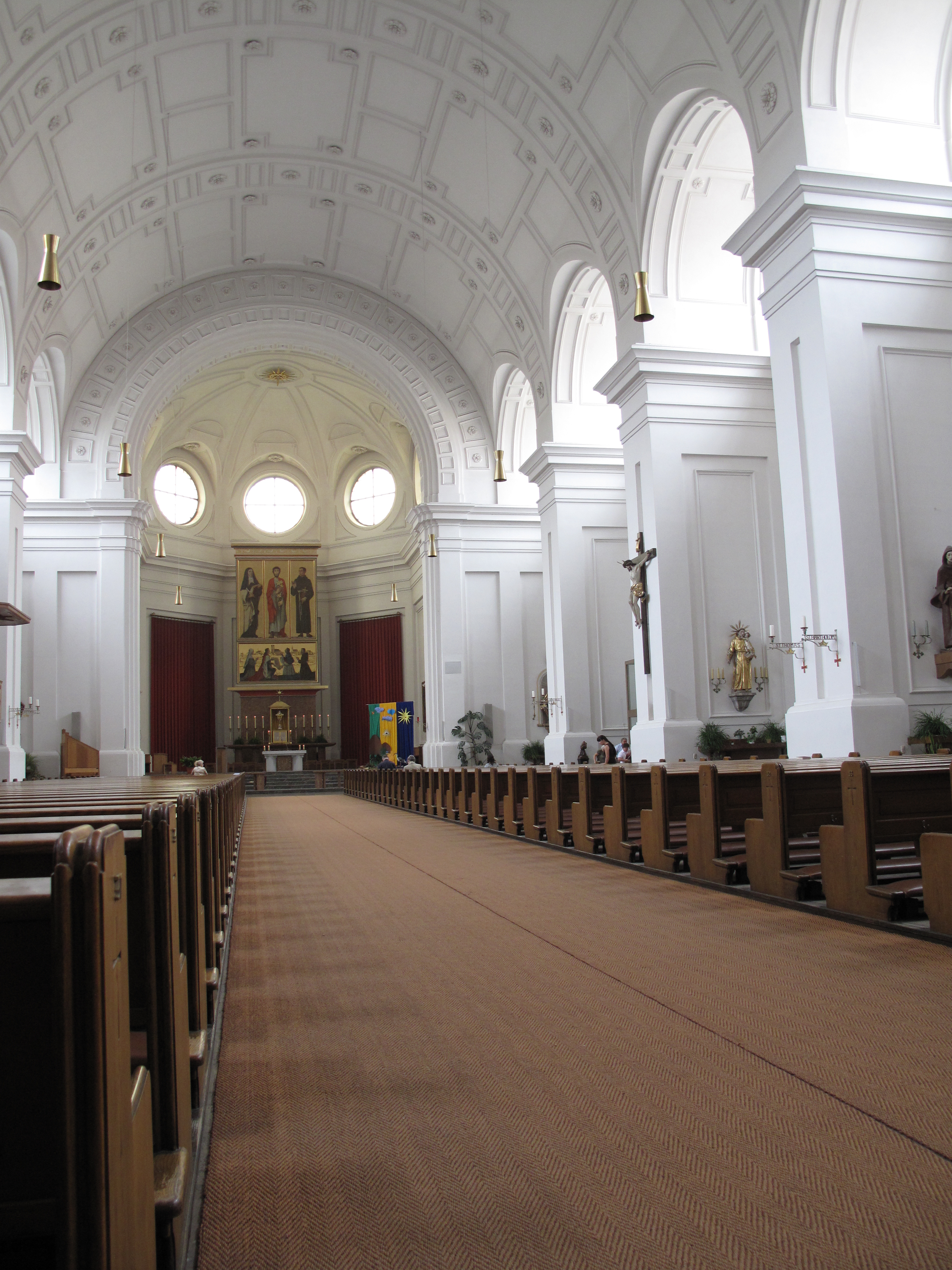 The interior of the catholic church St. Joseph in Munich (Maxvorstadt).